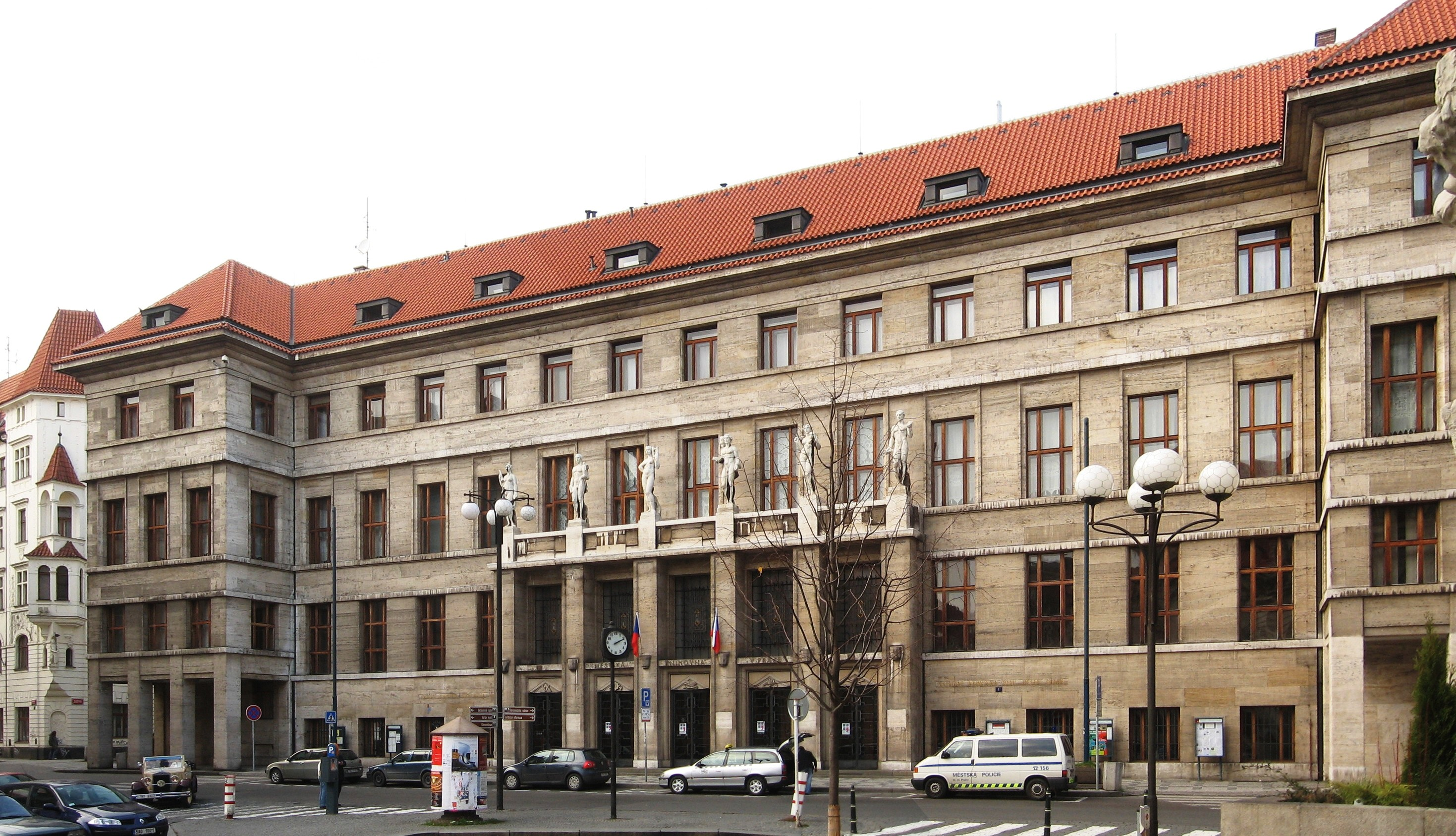 The main building of Municipal Library in Prague.